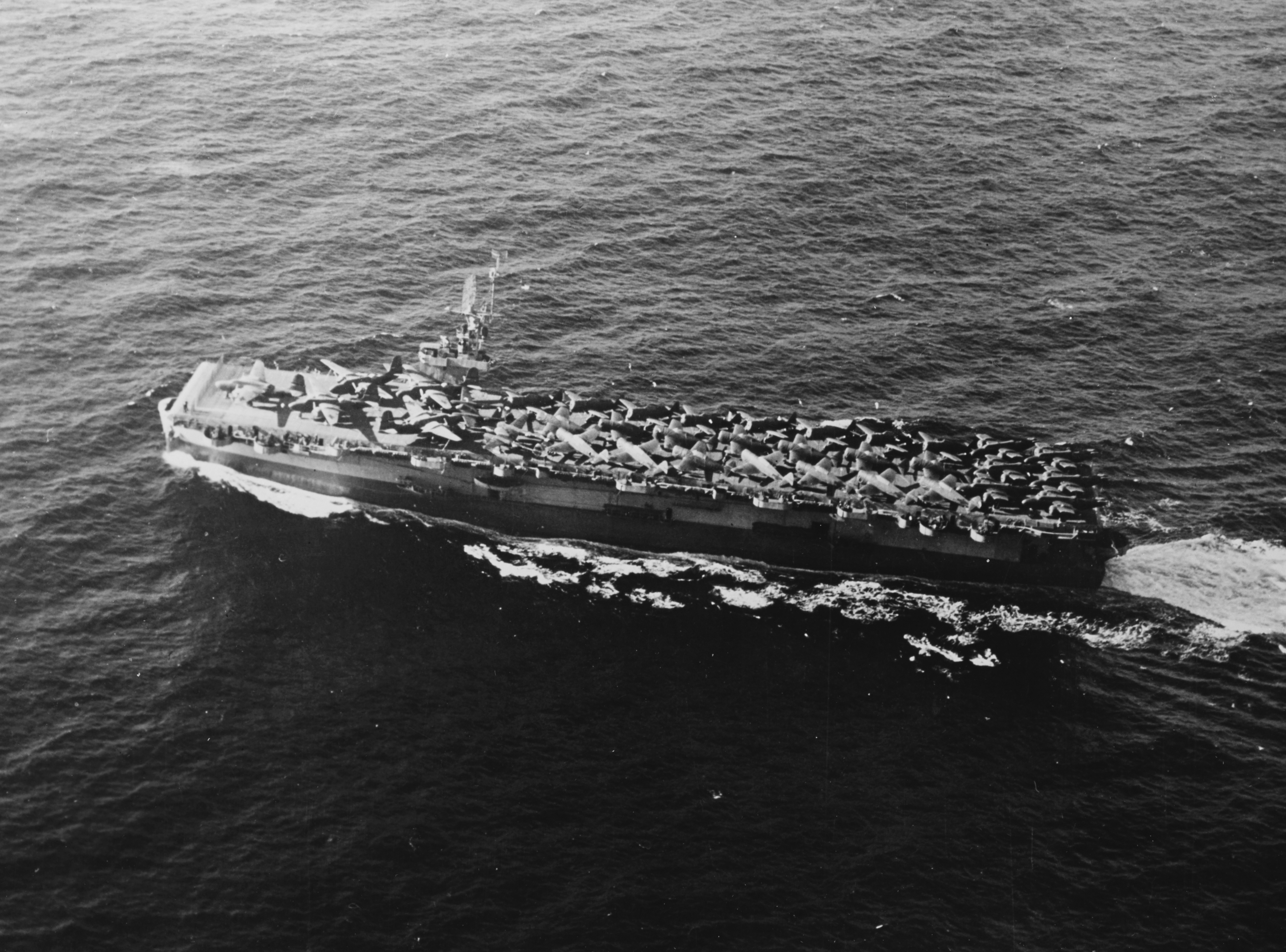 The U.S. Navy escort carrier USS Fanshaw Bay (CVE-70) transporting U.S. Army Air Forces aircraft on 17 January 1944. Indentifiable are 22 Republic P-47 Thunderbolt, two Lockheed P-38 Lightning and eleven Douglas A-20 Havoc.